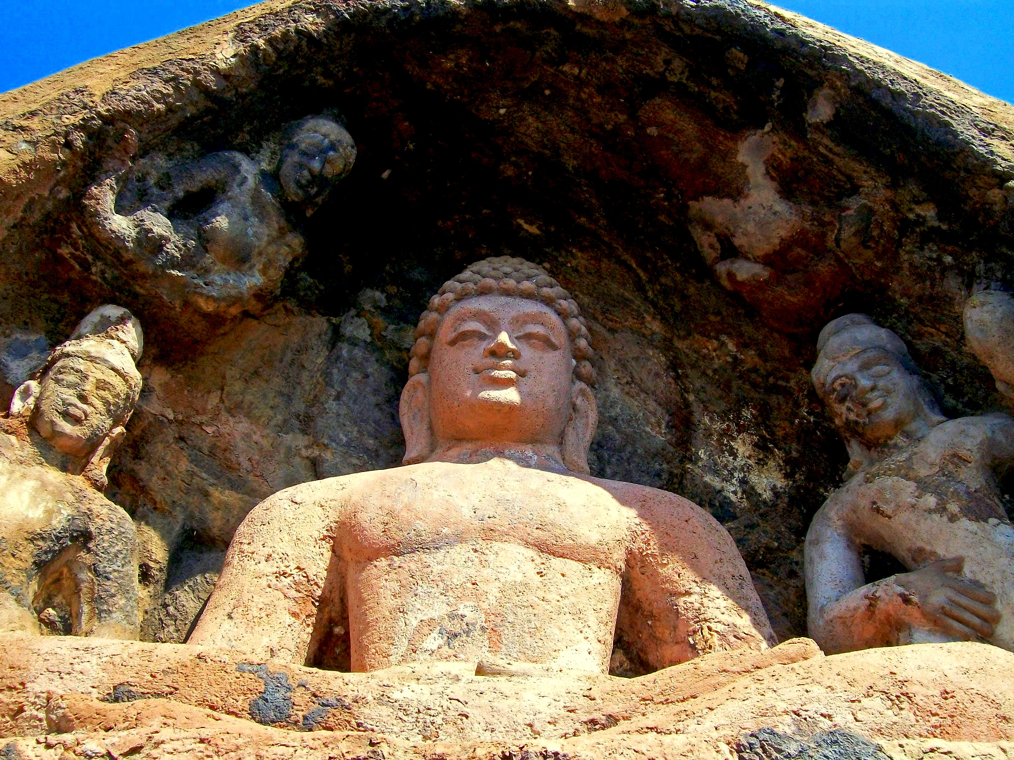 Buddhist rock-cut stupas and caves and the ruins of a structural Chaitya with its out building and other ancient remains of monastery on two adjoining hills known as Bojjannakonda and Lingalakonda.